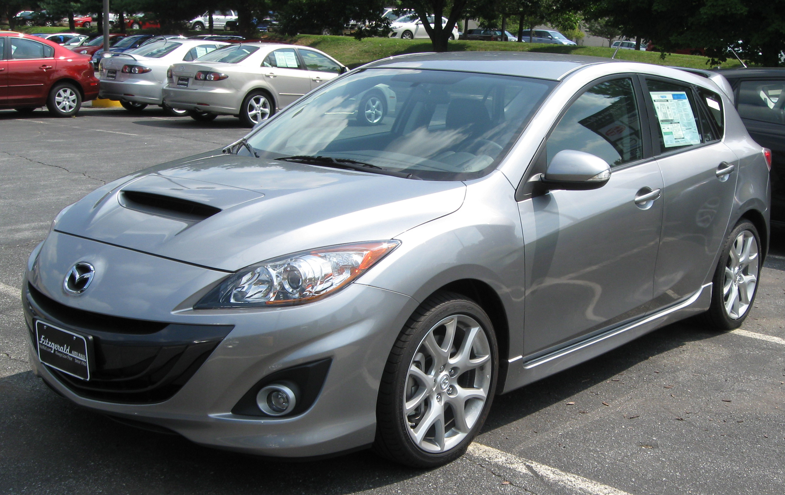 2010 MazdaSpeed 3 photographed in Frederick, Maryland, USA.